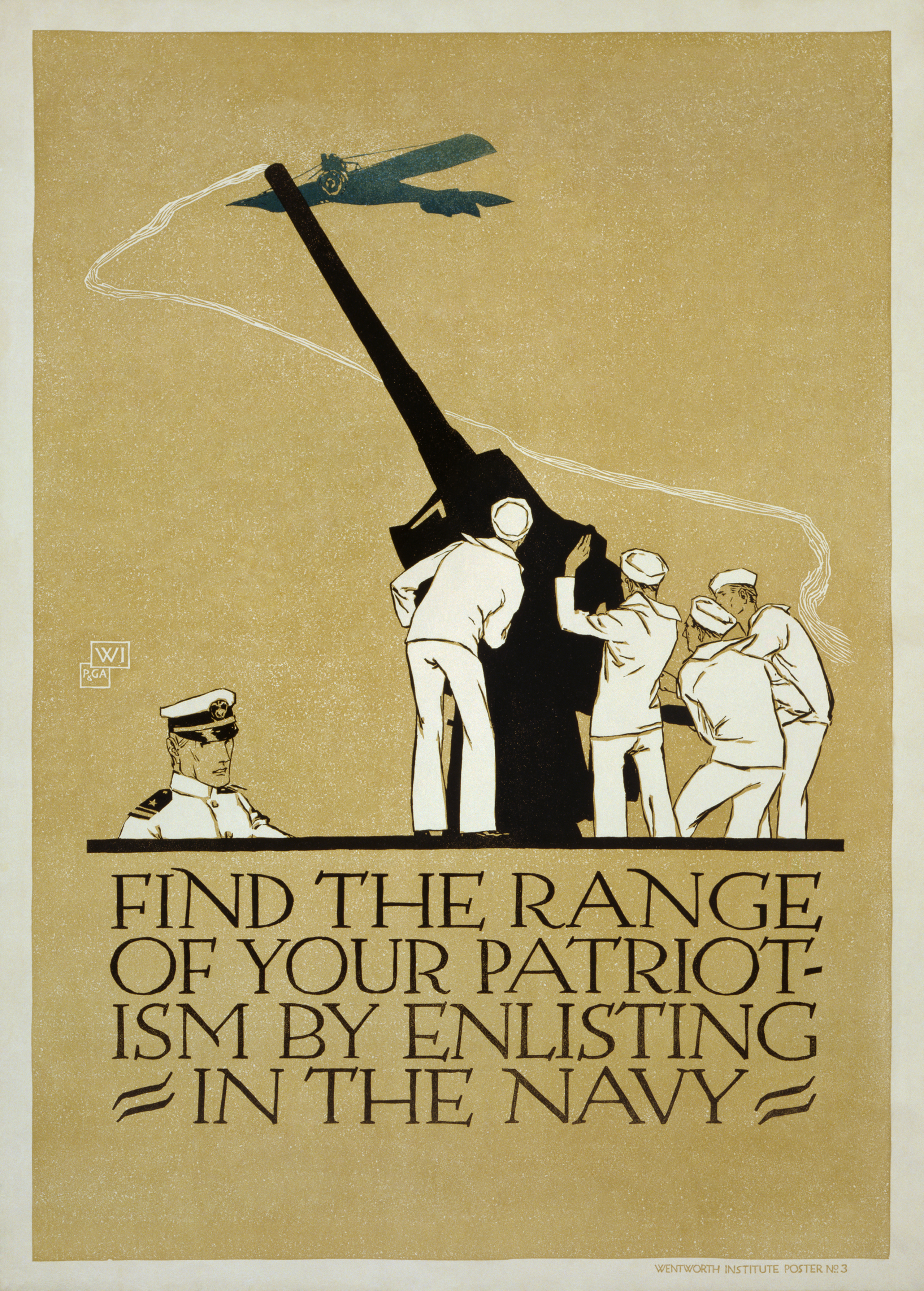 "Find the range of your patriotism by enlisting in the Navy" color lithograph poster.